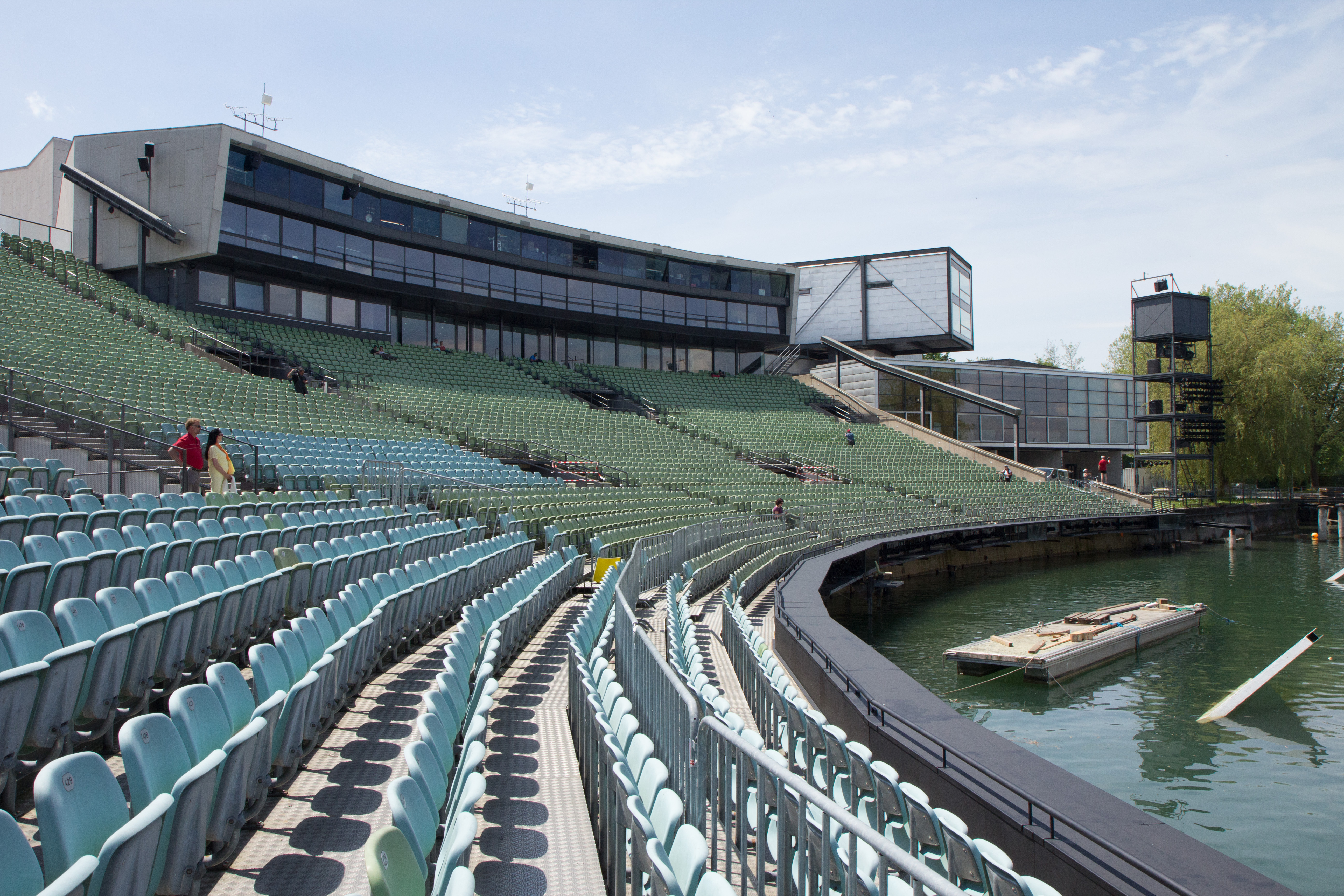 Seebühne in Bregenz with the construction for Carmen 2017